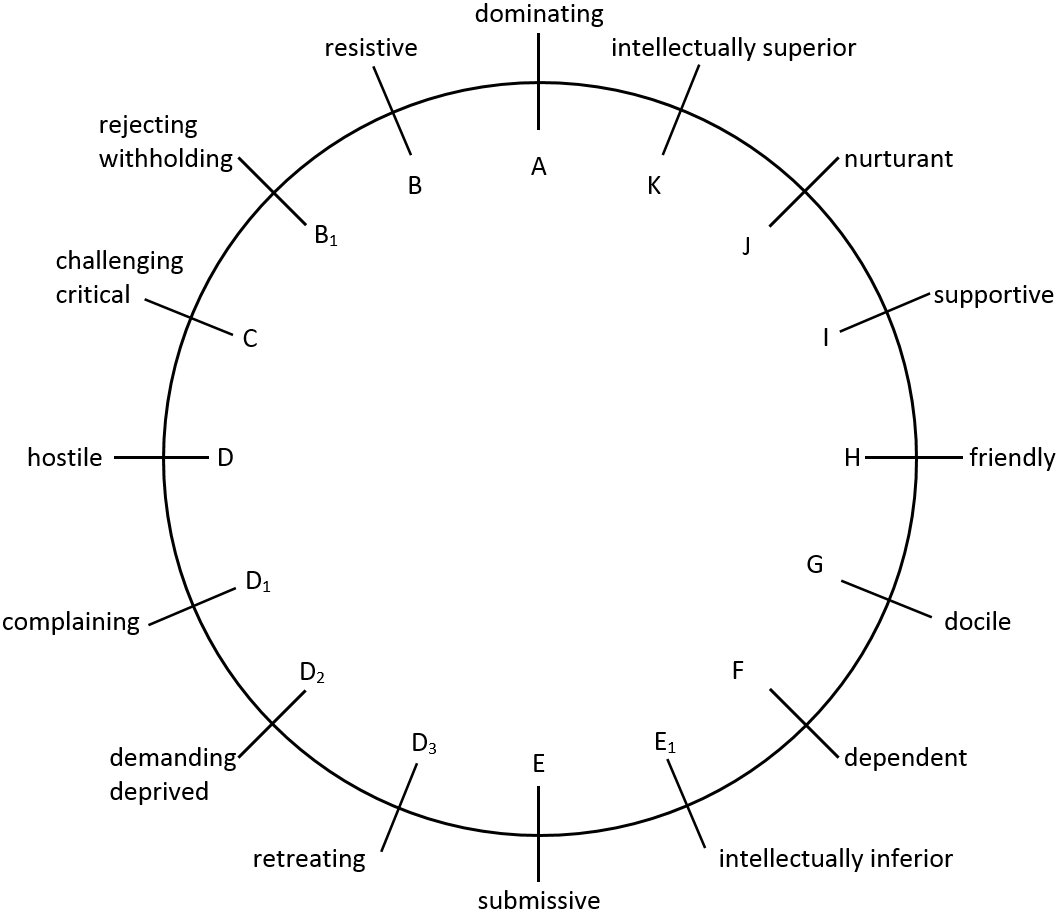 Interpersonal traits From: Timothy Leary (1950): The Social Dimensions of Personality. Group Process and Structure, University of California, Berkeley, p. 33